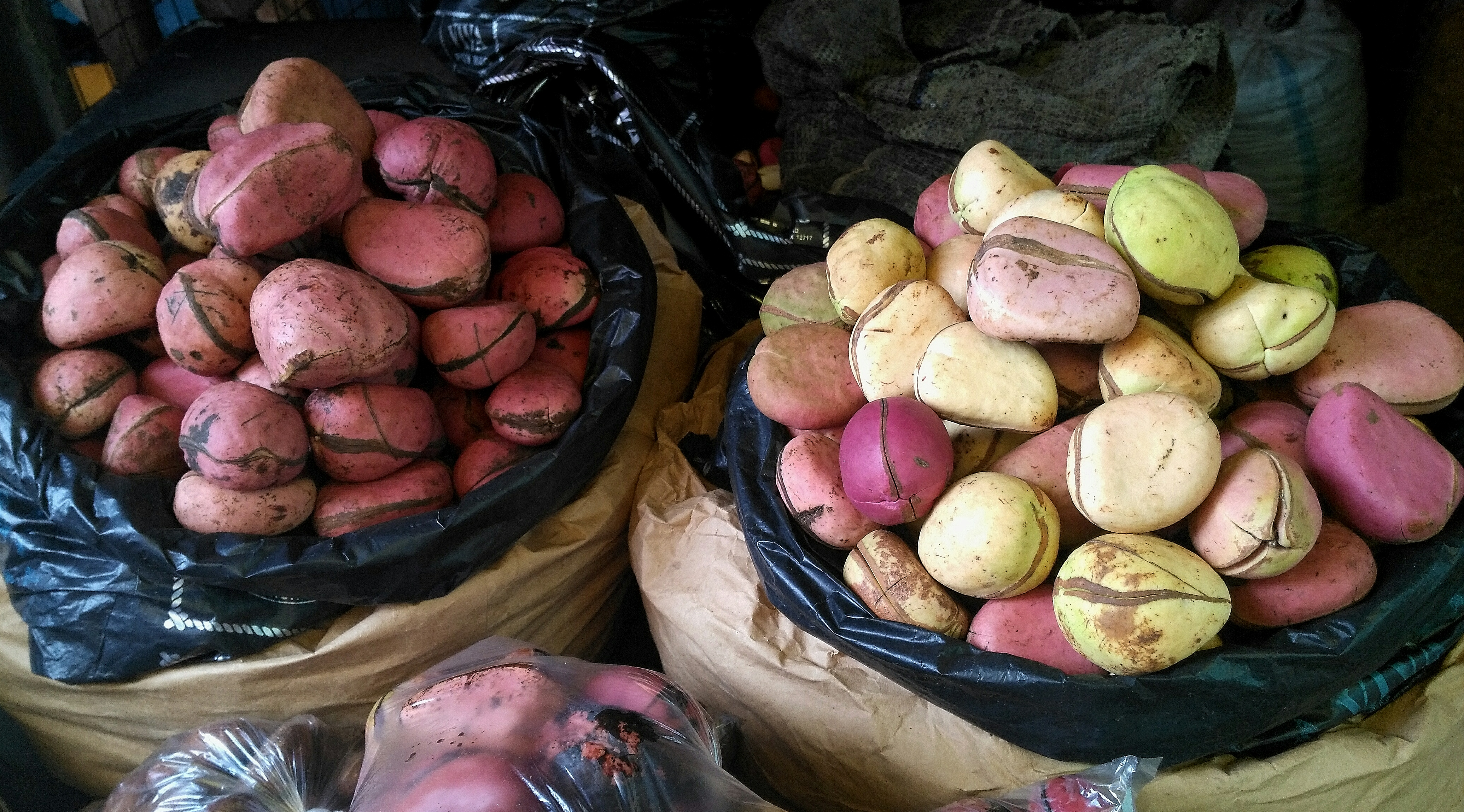 Red and yellow kola nuts for sale in Garki Market, Abuja, Nigeria